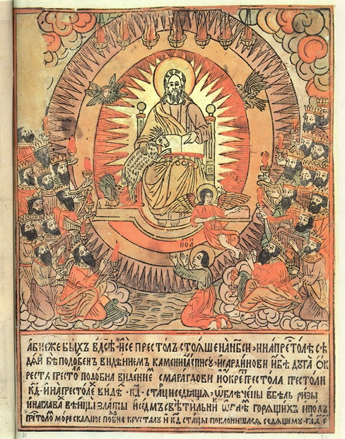 Throne of God. Illustration from the first Russian engraved Bible.